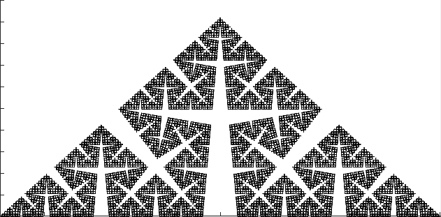 Cesàro fractal (85º angle).